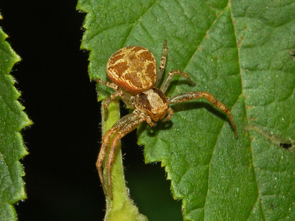 Xysticus species in Gorzente, Genova, Italy